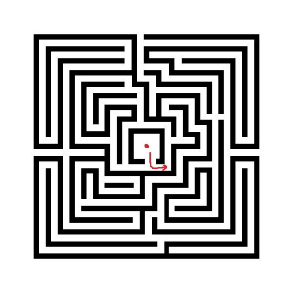 la sélection va vers quelque chose, est animée d'un développement